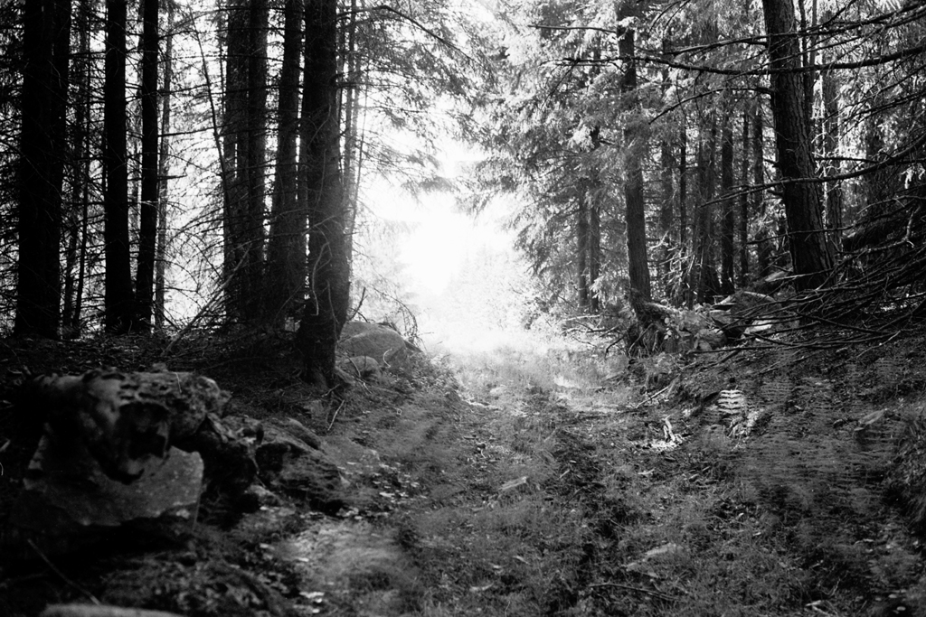 The nature reserve Slereboåns dalgång in the wilderness Risveden in Ale Municipality, Sweden.